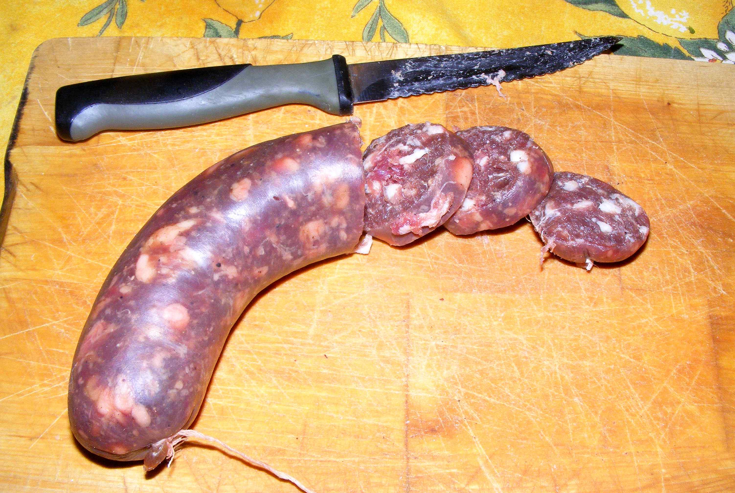 Turgias salami (Piedmont, Italy)